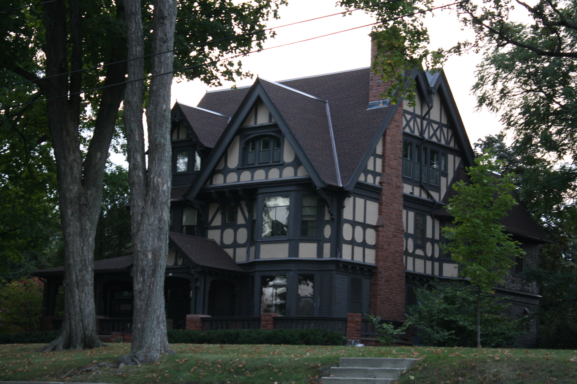 The F. A. Chadbourn House in Columbus, Wisconsin, listed on the National Register of Historic Places.